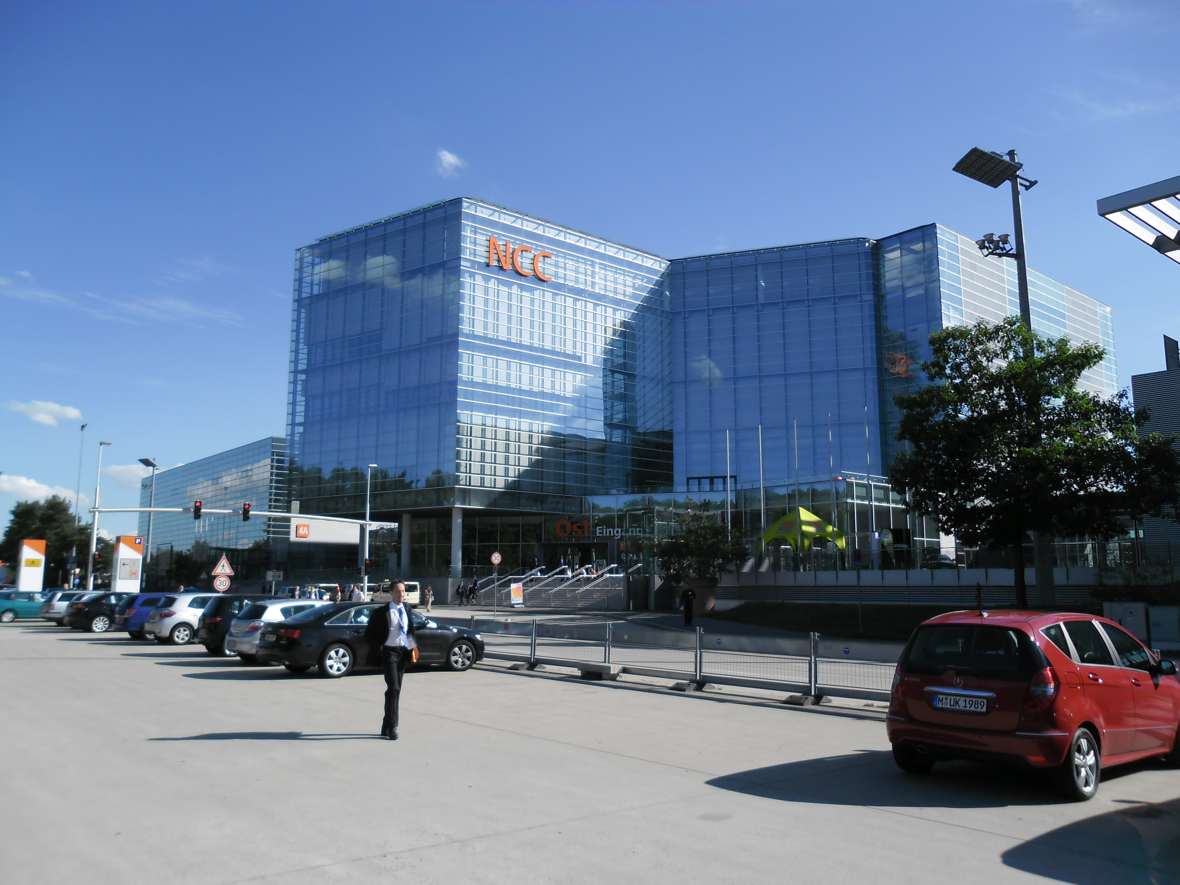 NCC Nuremberg ConventionCenter seen from the east